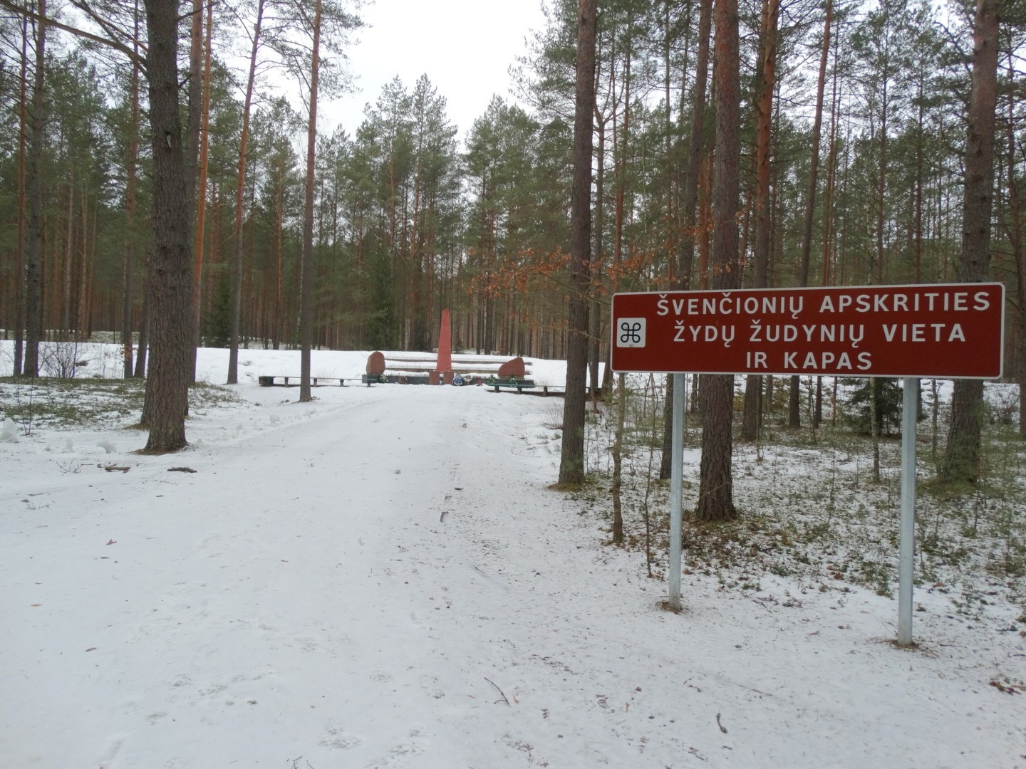 Jewish genocide monument, Švenčionėliai, Lithuania